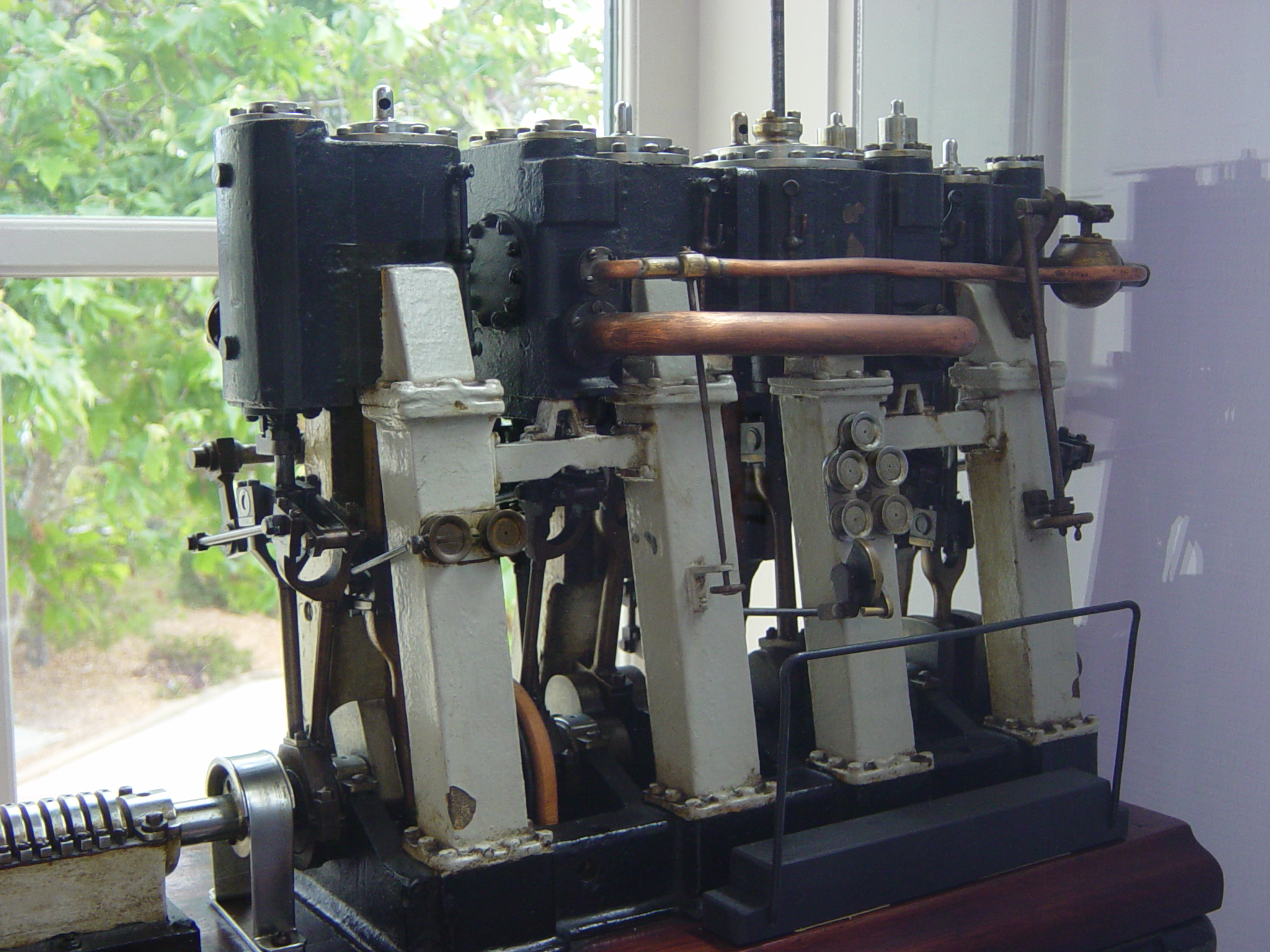 Model of a triple expansion steam engine locatated in a museum at Monterey, California. Image by User:Leonard G. The valve chest for each of the first two cylinders in to the left of the corresponding cylinder while that of the third is to the right.